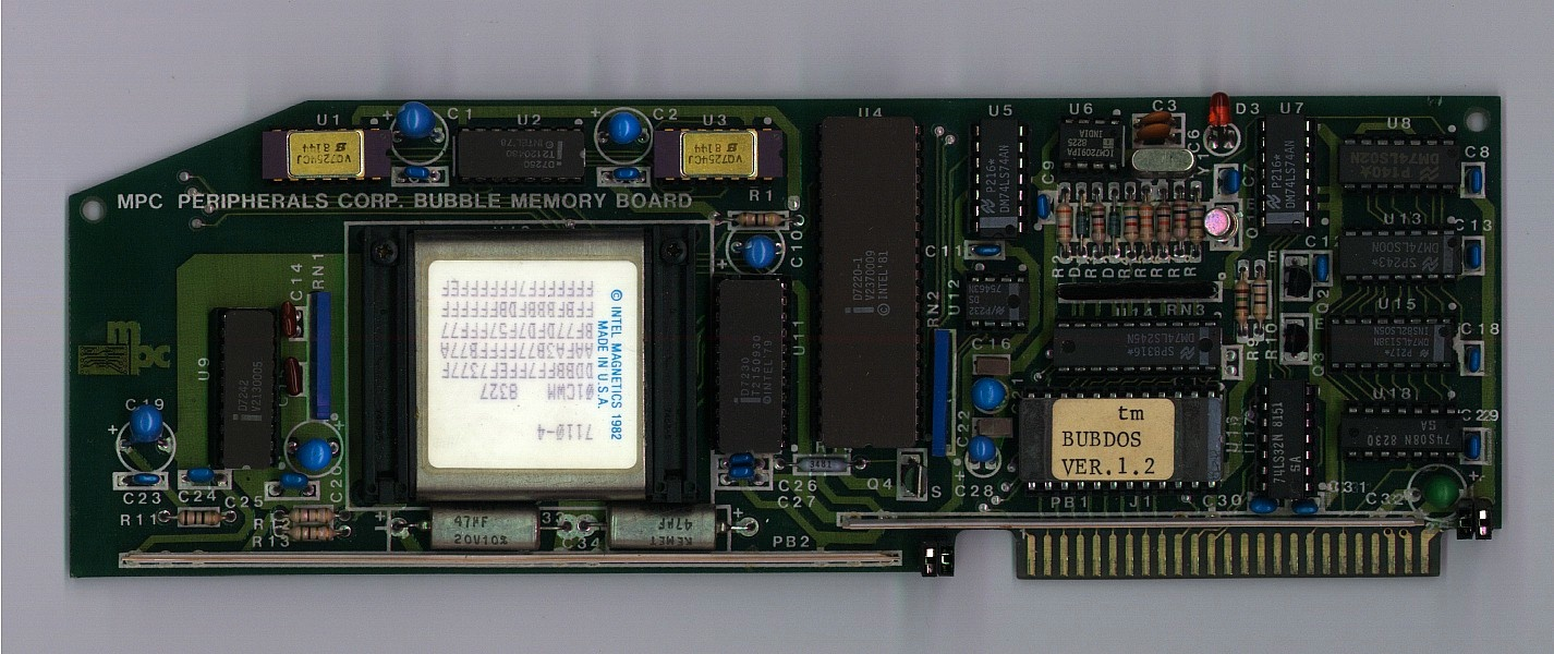 BUBBLE MEMORY BOARD / MPC PERIPHERALS